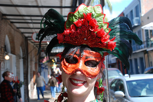 Taken outside the Moly's Pub on Decatur Street during the Mardi Gras 2009 Celebrations in New Orleans Louisiana, USA.